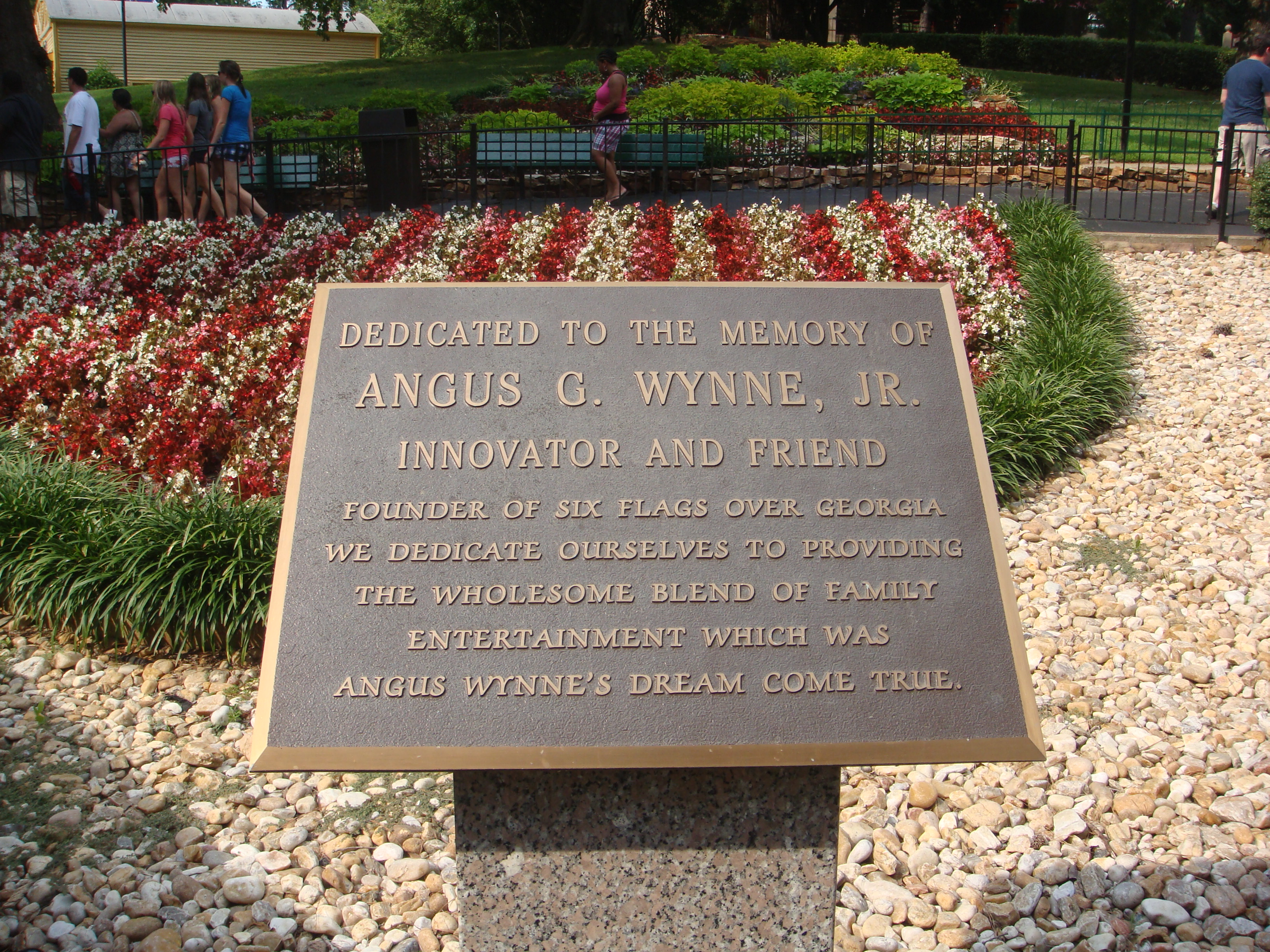 Dedicated to the Memory of Angus G. Wynne, Jr.